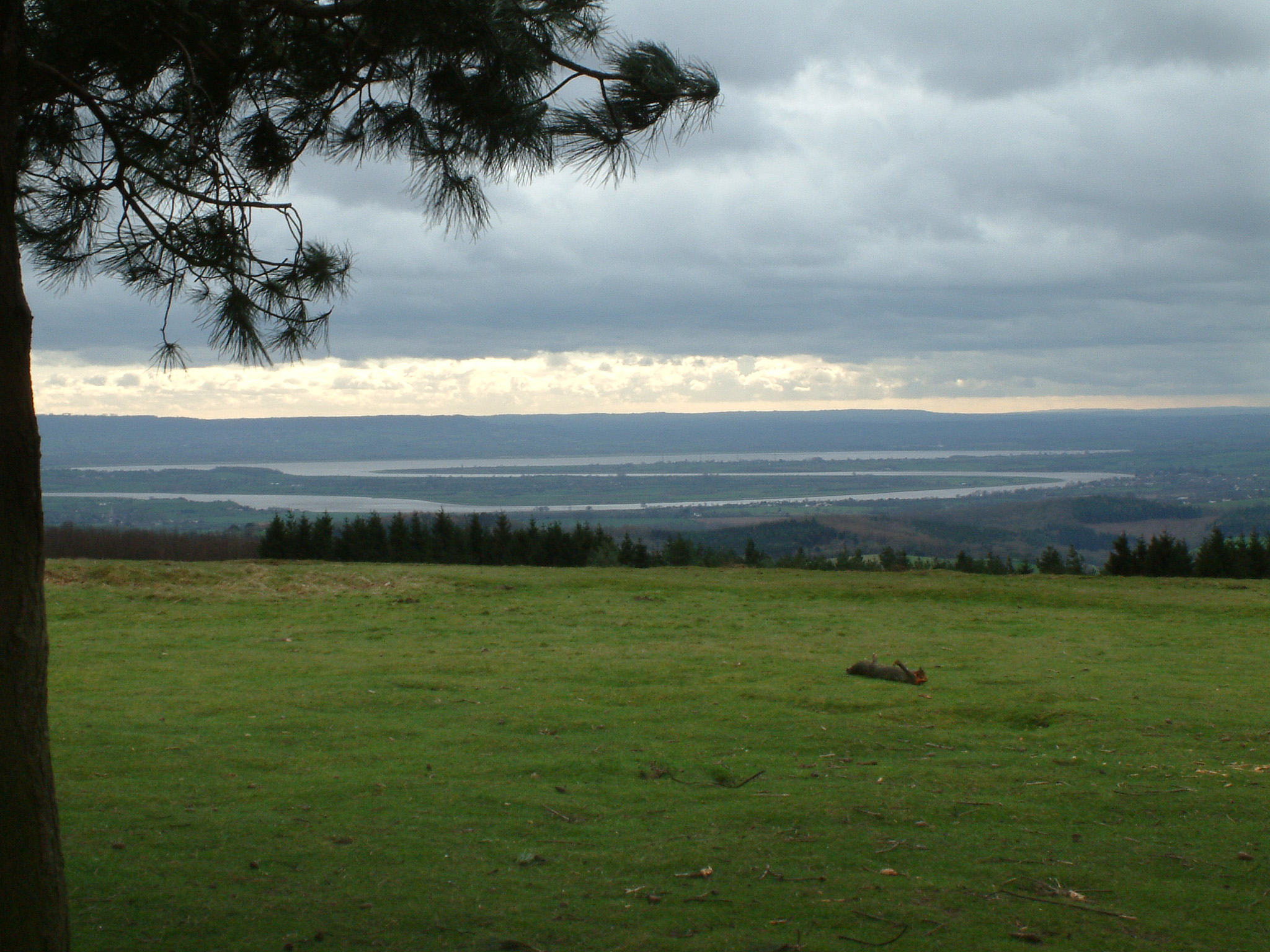 From the summit of May Hill, Gloucestershire, the twists and turns of the lower River Severn, part of the section difficult for navigation and bypassed by the Gloucester and Sharpness Canal.